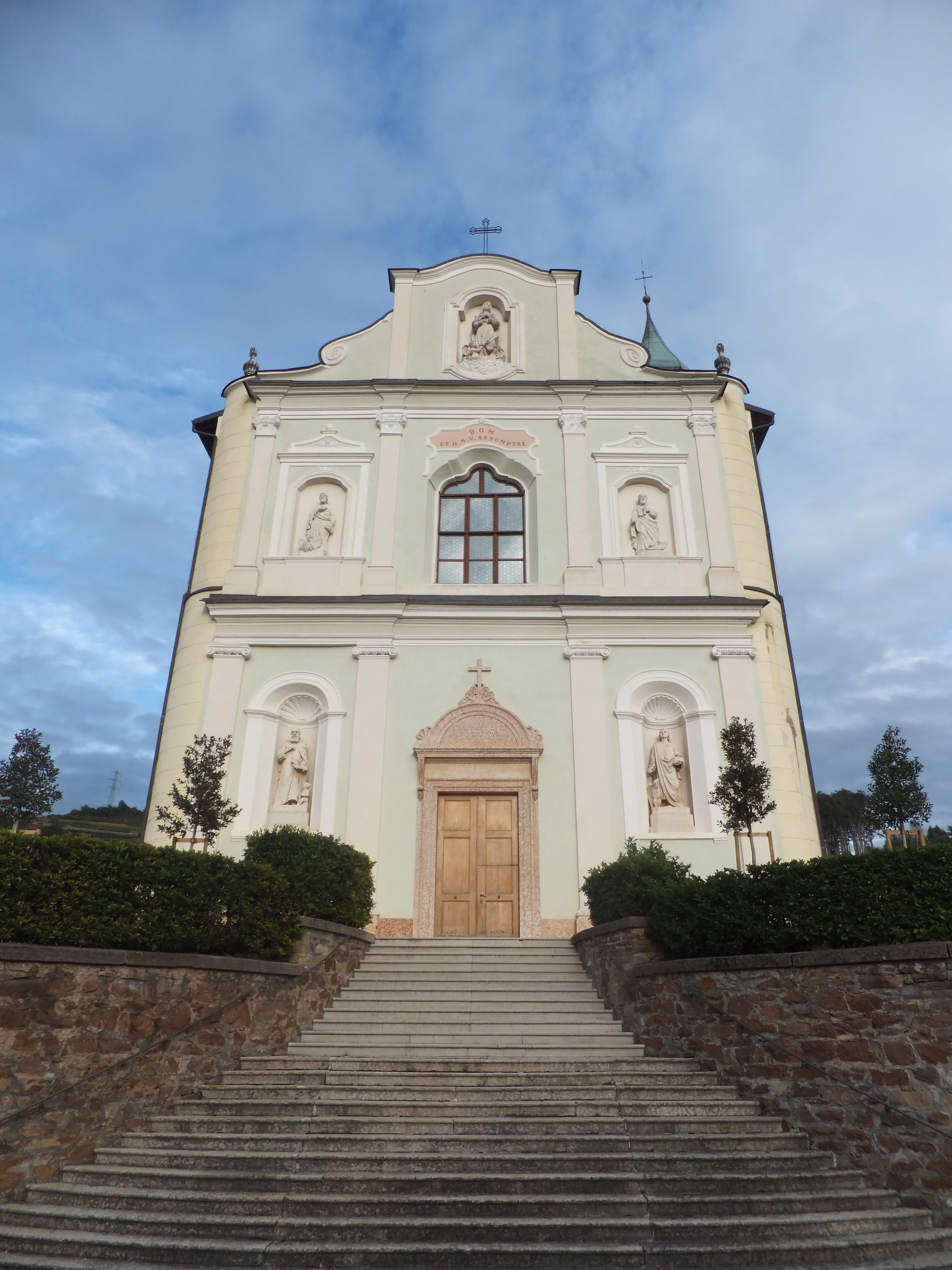 Verla (Giovo, Trentino, Italy) - Church of the Assumption